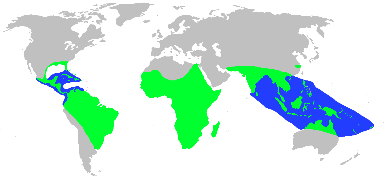 World distribution of Order Crocodilia, after data from Cogger, H.G & Zweifel, R.G. (1998). Reptiles & Amphibians". ISBN 0121785602